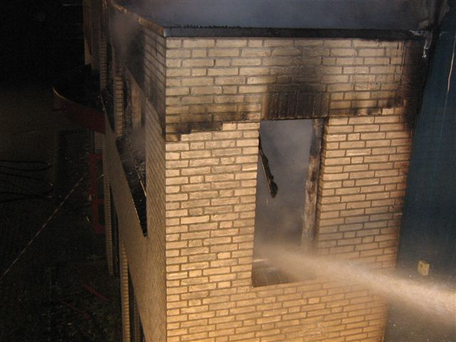 A brick wall showing horizontal cracks after a fire, smoke has been forced through the cracks leaving soot just above the cracks. The wall has become dangerous because of this lack of stability.